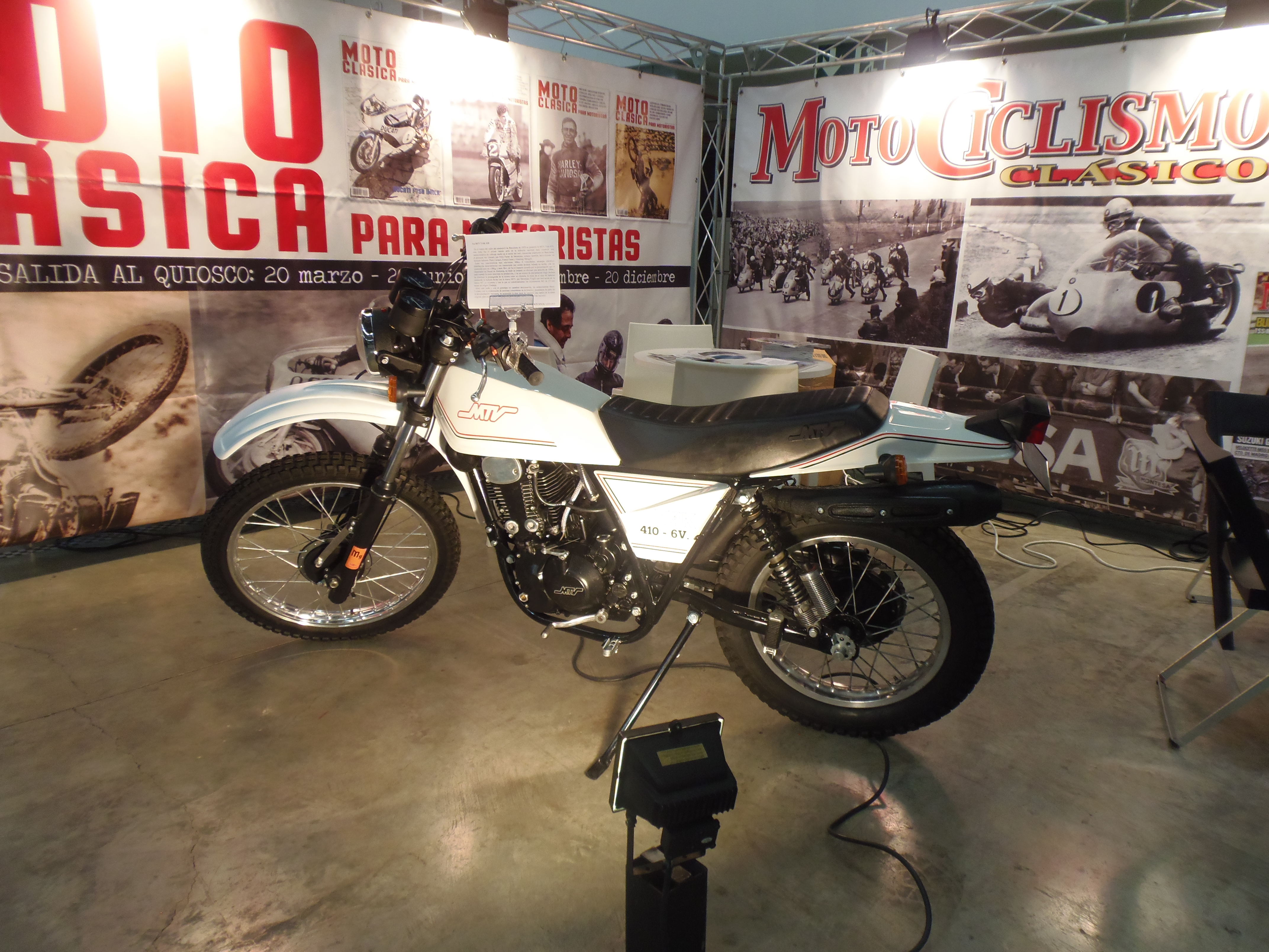 MTV Yak 410 6V, originally made by Mototrans Virgili circa 1978. This is a 2017 remake